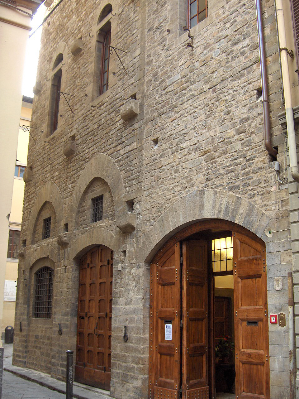 Entrance of the Casa di Dante (Dante Alighieri) museum in Florence, Italy Own photo - photo made by Georges Jansoone on 12 October 2005